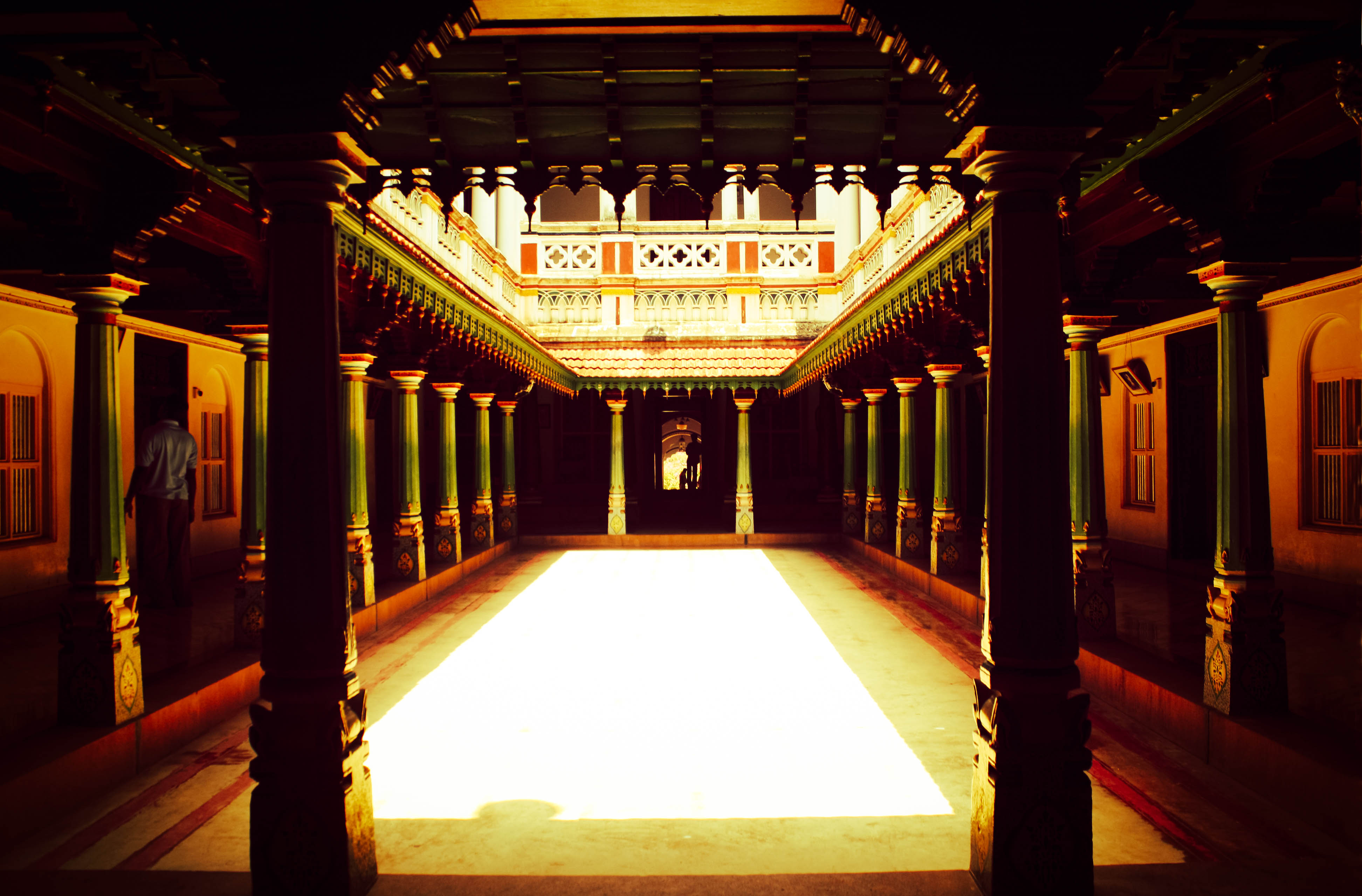 Chettinad palace in Kanadukathan, Karaikudi in Tamil Nadu